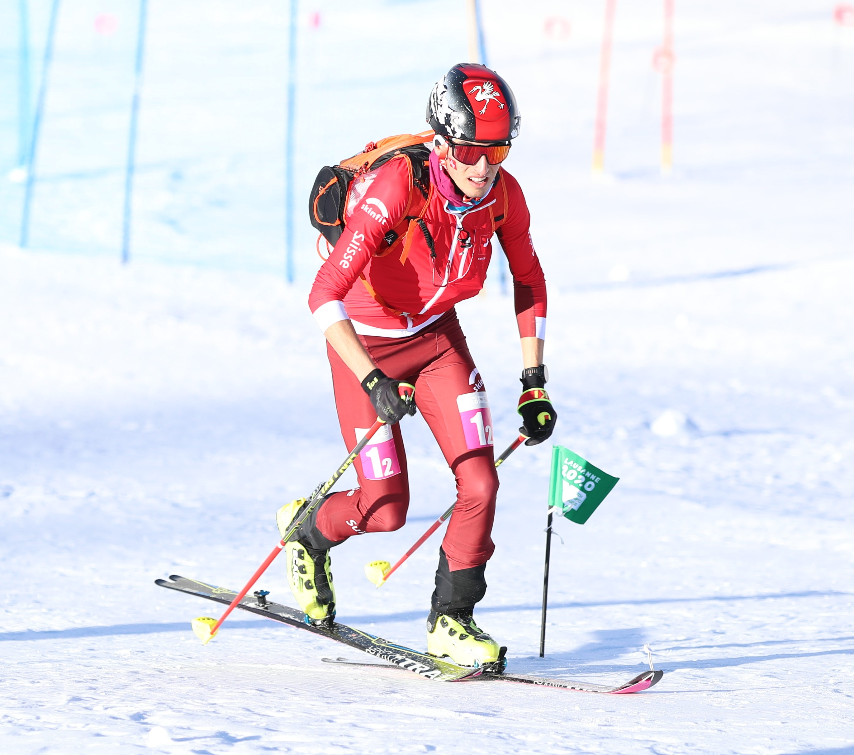 Ski mountaineering Mixed Relay at the 2020 Winter Youth Olympics in Lausanne